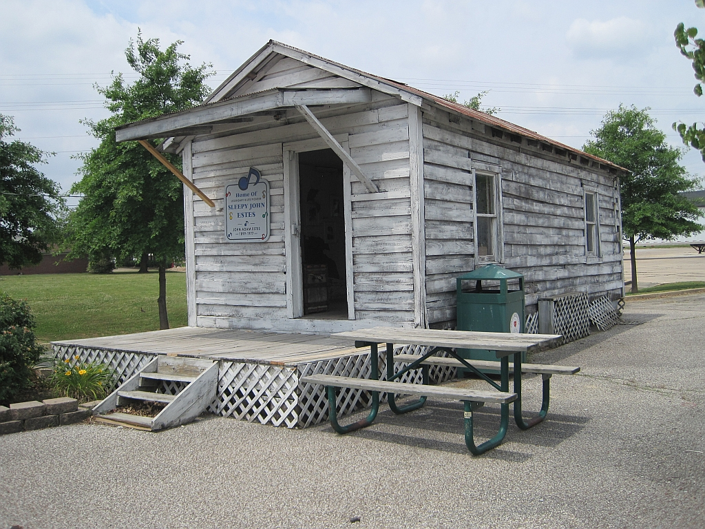 Sleepy John Estes House at the West Tennessee Delta Heritage Center, 121 Sunny Hill Cove in Brownsville, Tennessee